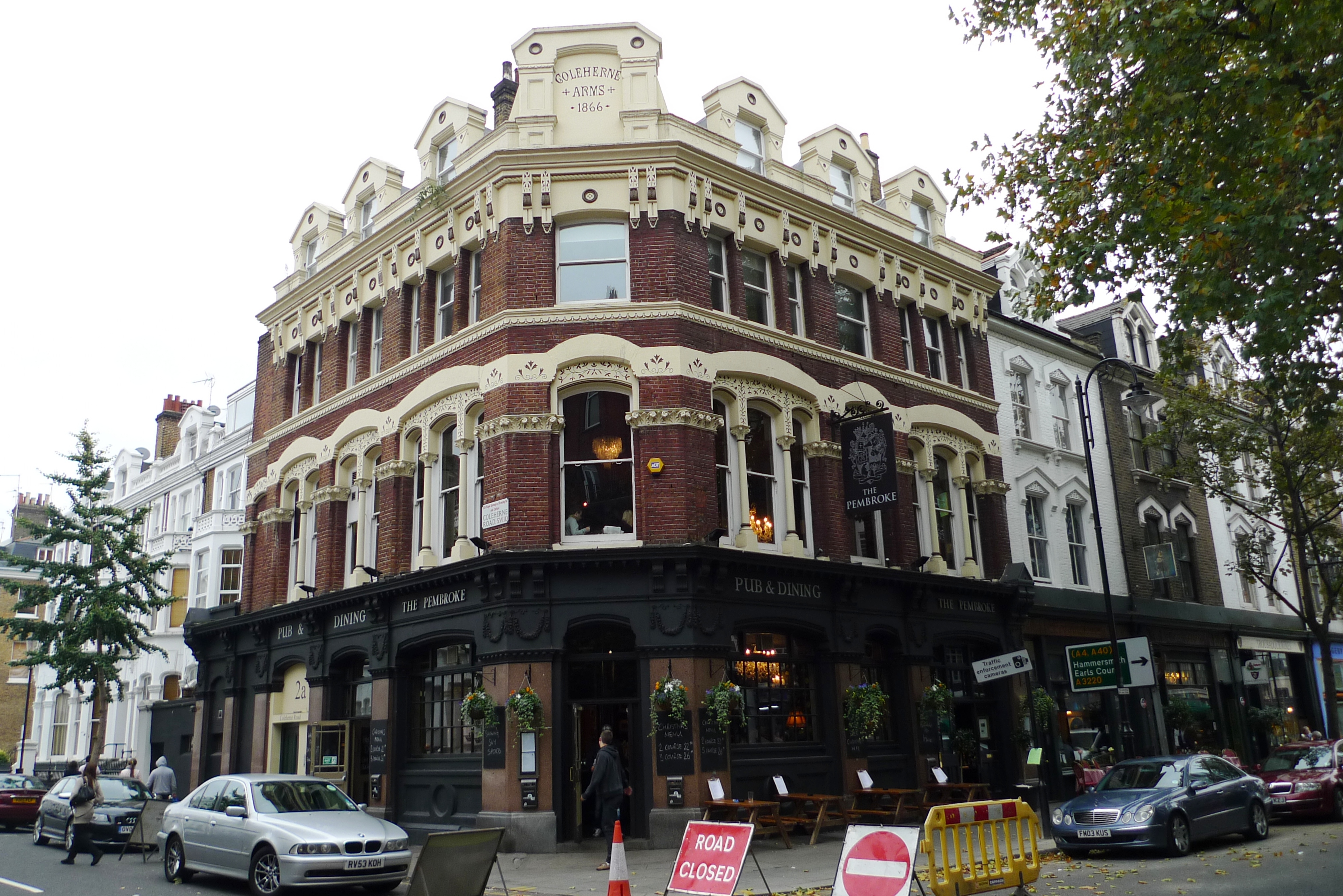 A gastropub on its home turf, this used to be a gay pub. Address: 261 Old Brompton Road (formerly Claro Terrace, Richmond Road). Former Name(s): The Coleherne (Arms); The Coleherne Hotel. Owner: Greene King [Real Pubs] (website); Mitchells and Butlers (former). Links: Fancyapint Pubs Galore Beer in the Evening Beer in the Evening (The Coleherne Arms) Dead Pubs (history)